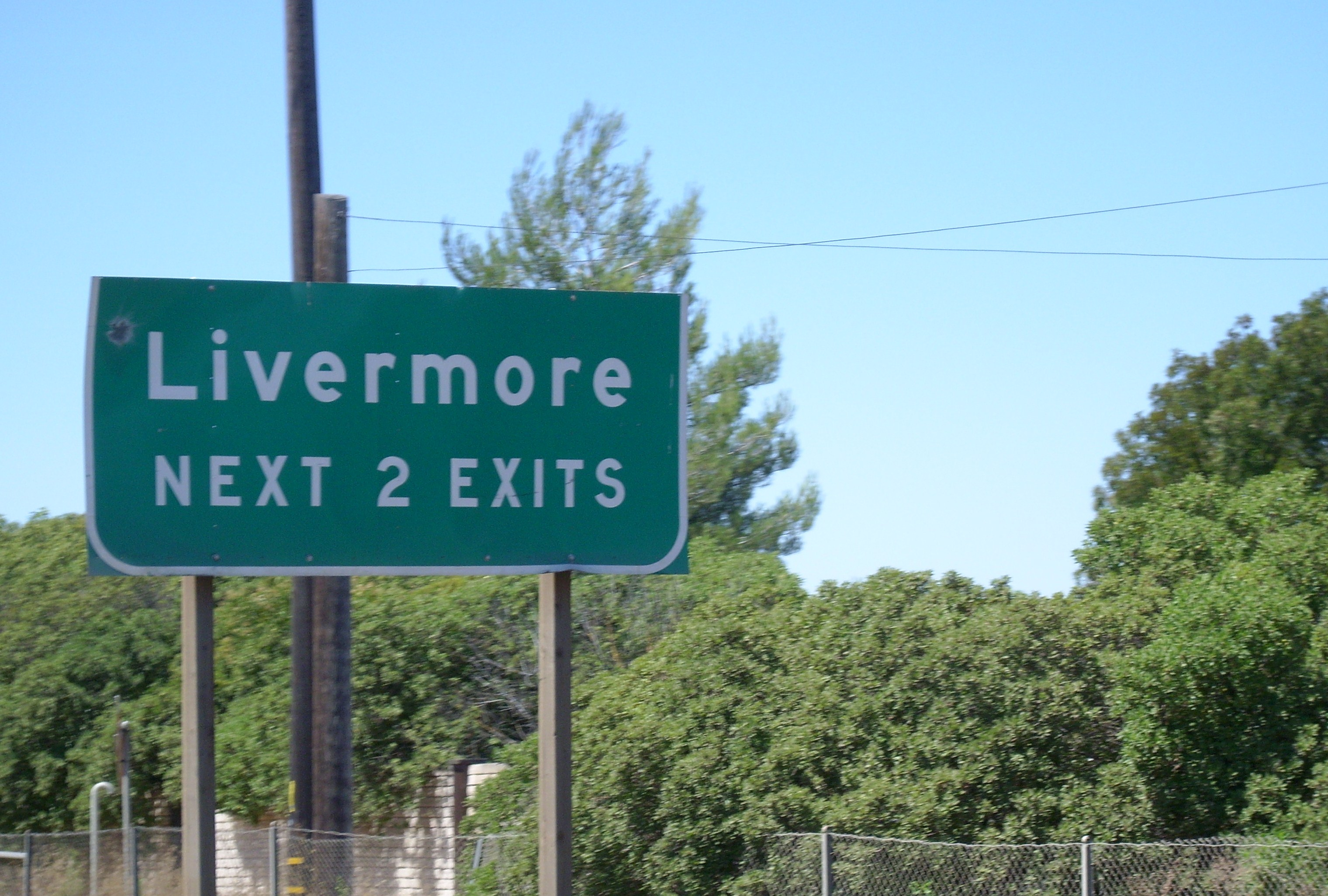 A freeway sign in Livermore.